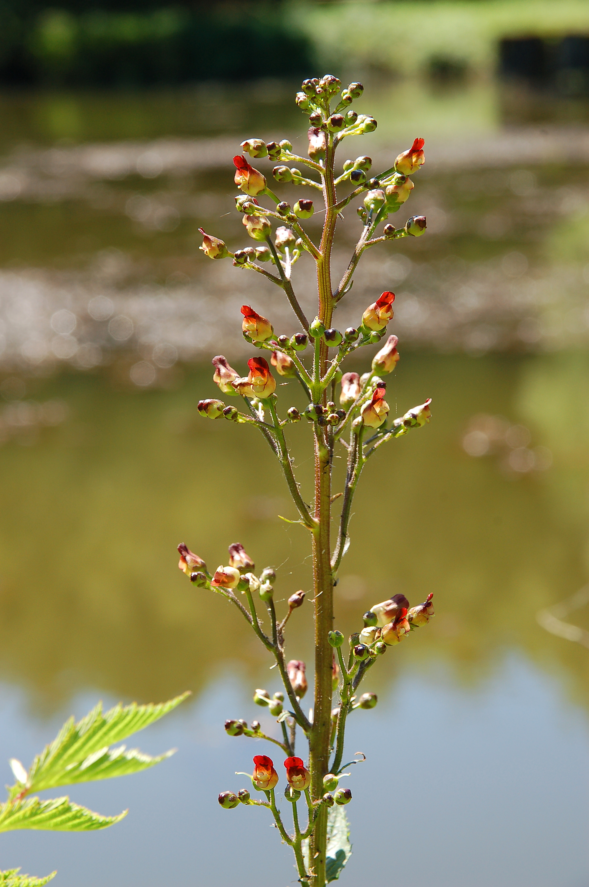 Scrophularia_nodosa in Belgium (Chapois).